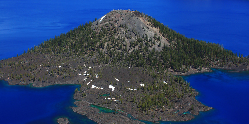 Crater Lake National Park, Oregon, USA, Wizard Island